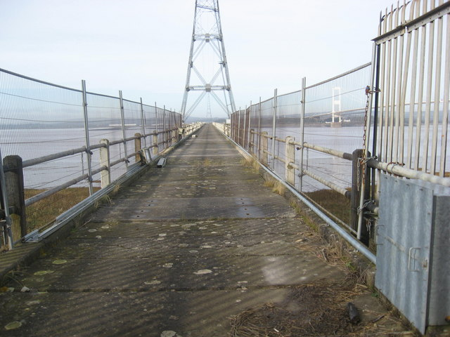 Pier to pylons where the National Grid crosses the River Severn A tour-de-force of technology in its day (1958) when the National Grid crossed the Severn in a single span, the cables were fabricated from aluminium to improve the strength to weight ratio.